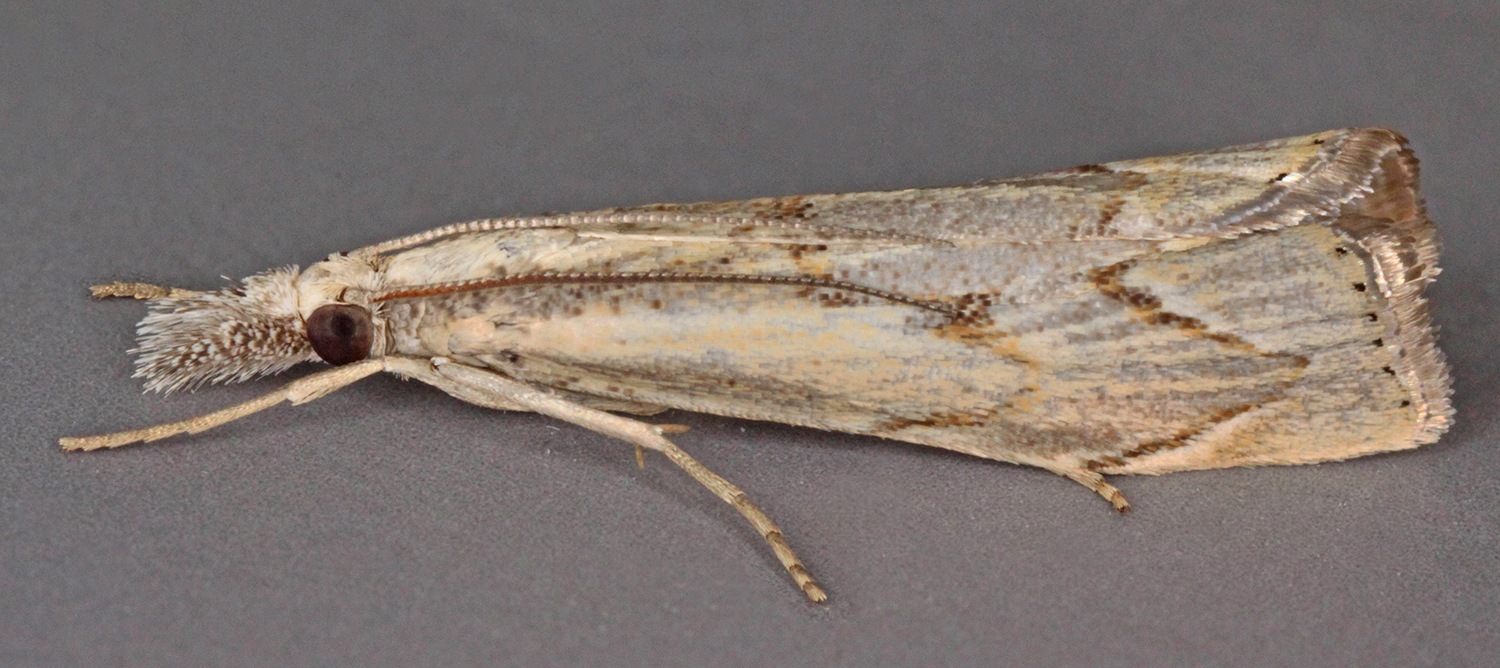 Agriphila geniculea, Wrexham Industrial Estate, North Wales, Aug 2010